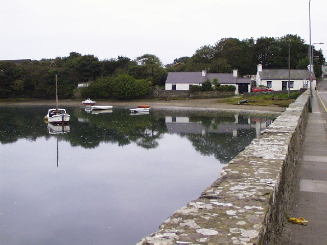 Four Mile Bridge. This is the bridge across the strait separating the main island of Anglesey from Holy Island on the B4545 between Valley and Trearddur Bay.